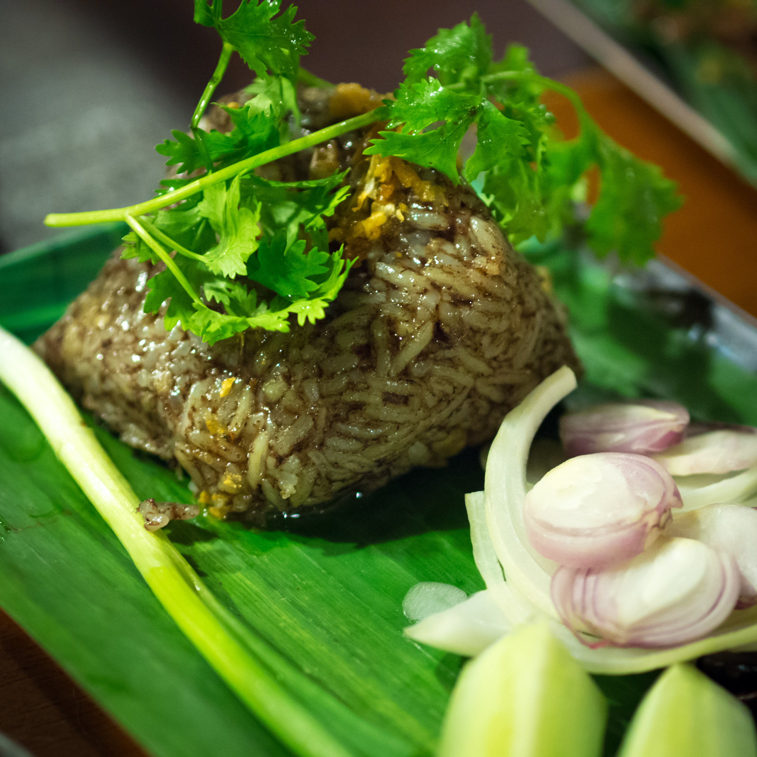 Khao kan chin (Thai script: ข้าวกั๊นจิ๊น) is a dish of the Tai Yai (Shan people) of northern Thailand. It is rice that is mixed with pork blood and spices, and steamed inside a banana leaf. Khao kan chin is served with cucumber, onions and fried, dried chillies.